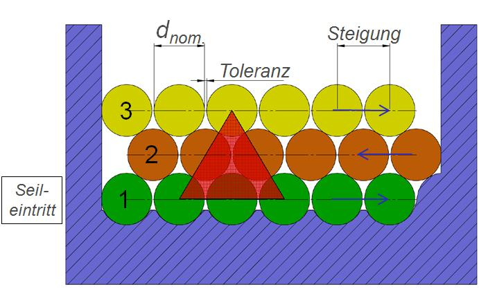 Principle of multilayer wire rope spooling #3